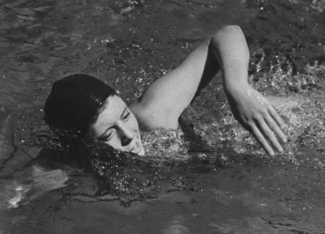 1950 Press Photo Auckland New Zealand swimmer Joan Harrison in pool